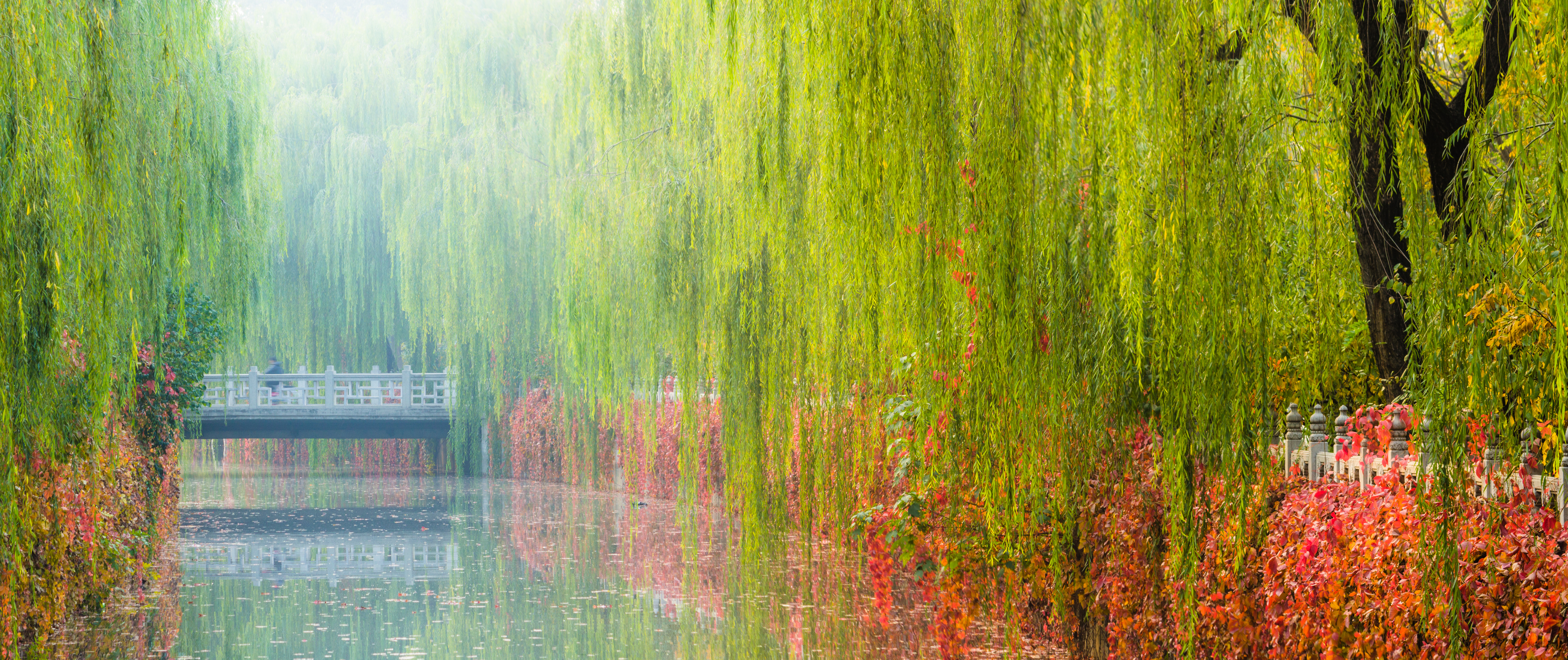 Wanquan River flowing through Tsinghua University 中文（中国大陆）: 万泉河流经清华大学，即清华校河